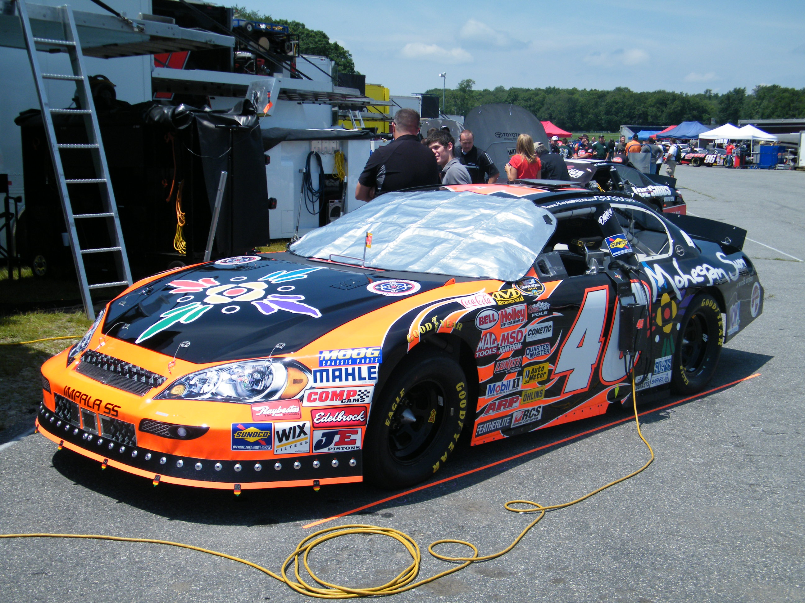 Matt Kobyluck's No. 40 Chevrolet at Thompson Speedway, July 11, 2009.